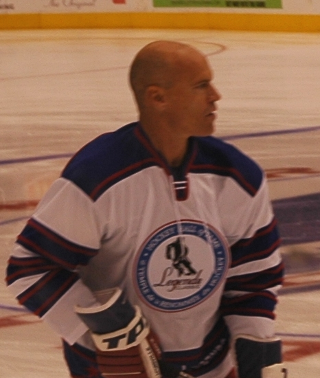 Mark Messier played with the All-Star Legends 2008 in Toronto